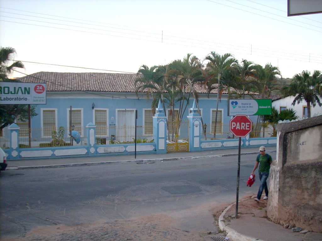 Hospital São João de Deus, em Santa Luzia, Minas Gerais.